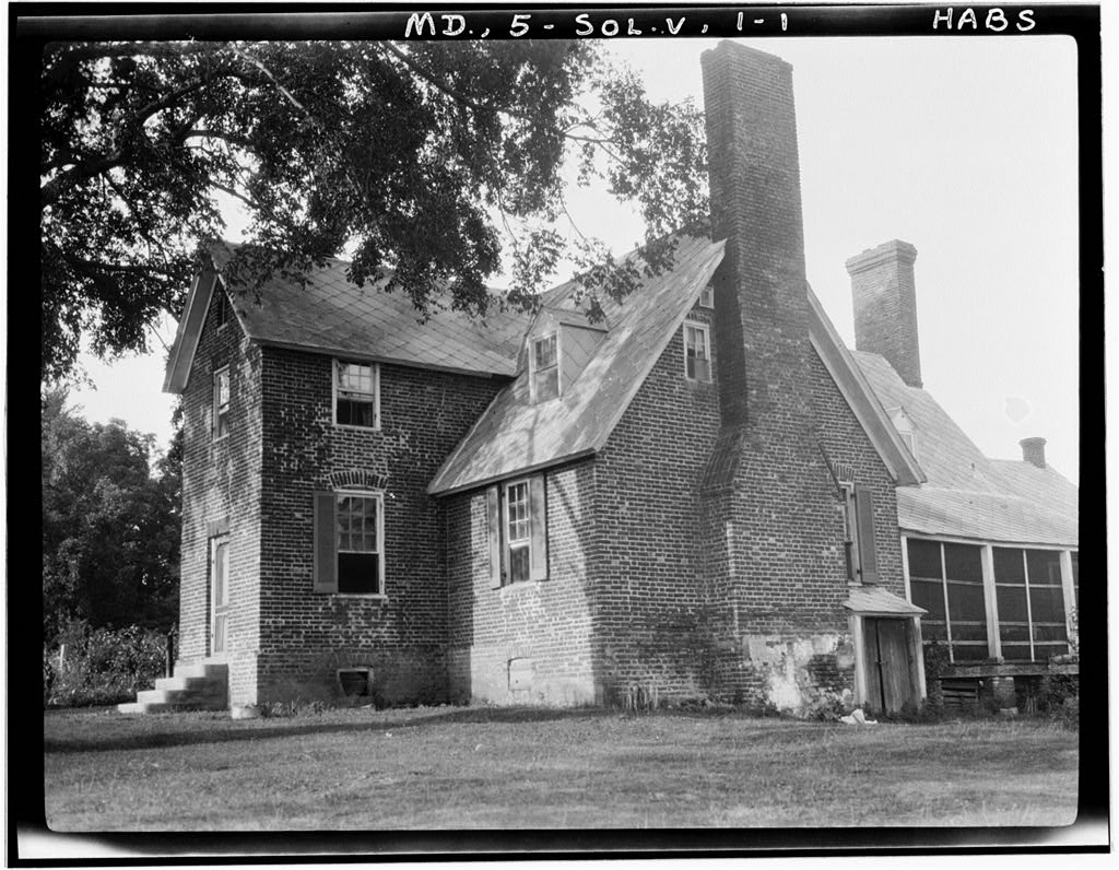 Cedar Hill, Gantt House, Calvert Co., Md. General View Vic Sollers P.O. HABS MD,5-SOL.V,1-1